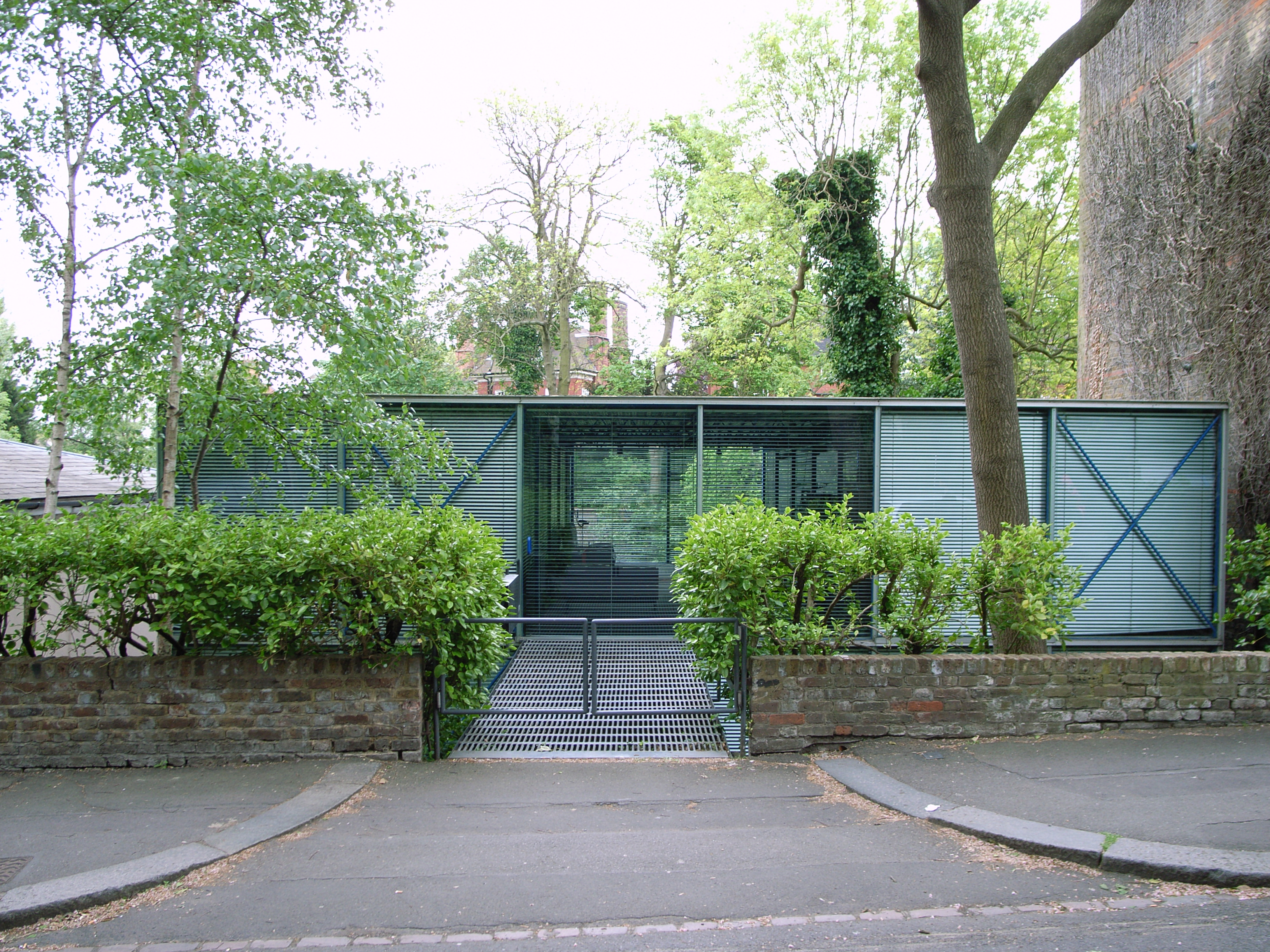 Hampstead, London, United Kingdom